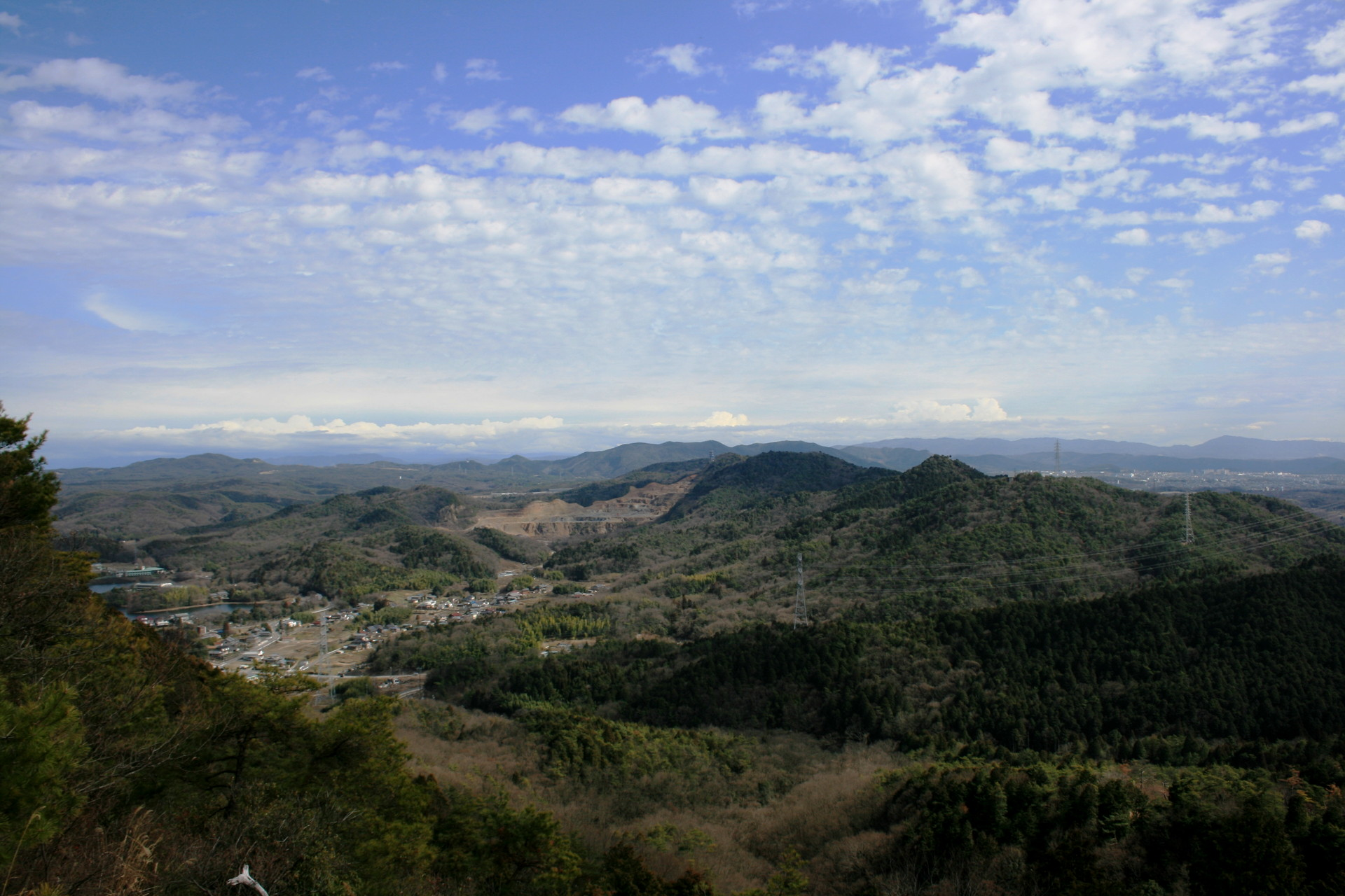 Mount_Haku_from_Mount_Hongu